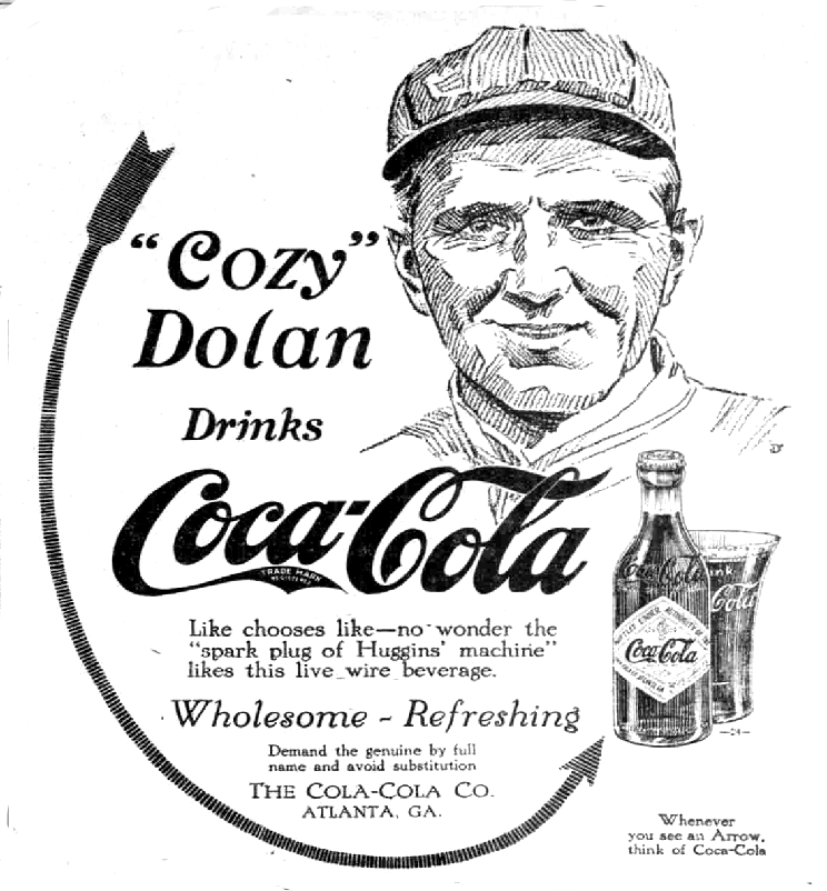 Newspaper ad showing baseball Cozy Dolan.